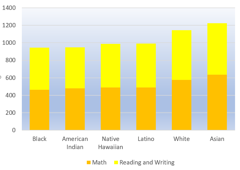 data